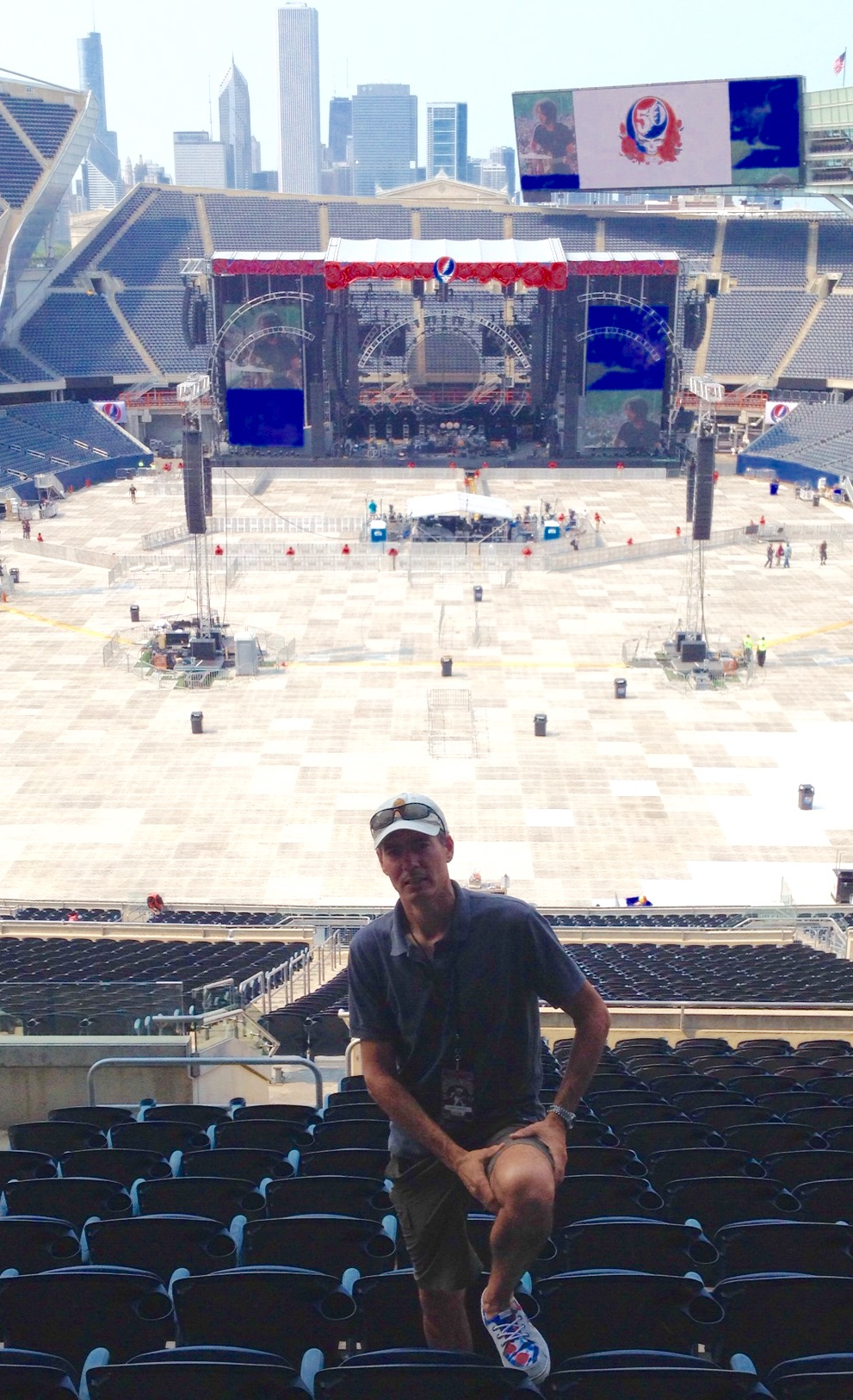 David Lemieux at Soldier Field, Chicago prior to the final Fare Thee Well concert in 2015